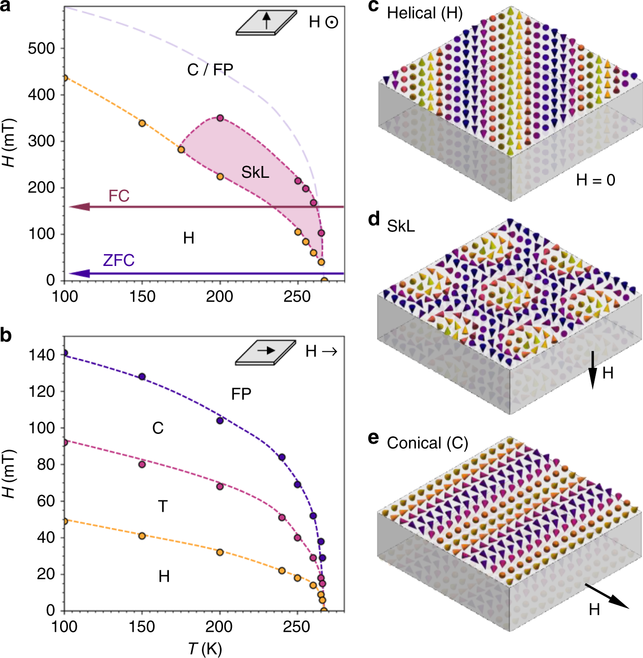 Spin textures and magnetic phase diagrams of an FeGe lamella: a, b Phase diagrams of the ~120 nm FeGe lamella for out-of-plane and in-plane applied magnetic field, respectively, as determined magnetic x-ray diffraction. Schematics of each field configuration are shown as insets. In a, boundaries between the helical (H) and skyrmion lattice (SkL) states are displayed by yellow and magenta dots. The expected boundary between the indistinguishable conical (C) and field polarised (FP) states is estimated by the purple dashed line. The zero-field cooling (ZFC) and field cooling (FC) procedures are indicated. In b, yellow, magenta and purple dots boundaries indicate the boundaries between the helical (H), helical rotation transition (T), conical (C) and field polarised (FP) states. c–e Schematic illustrations of the spin textures as they are expected to appear in a thin lamella.